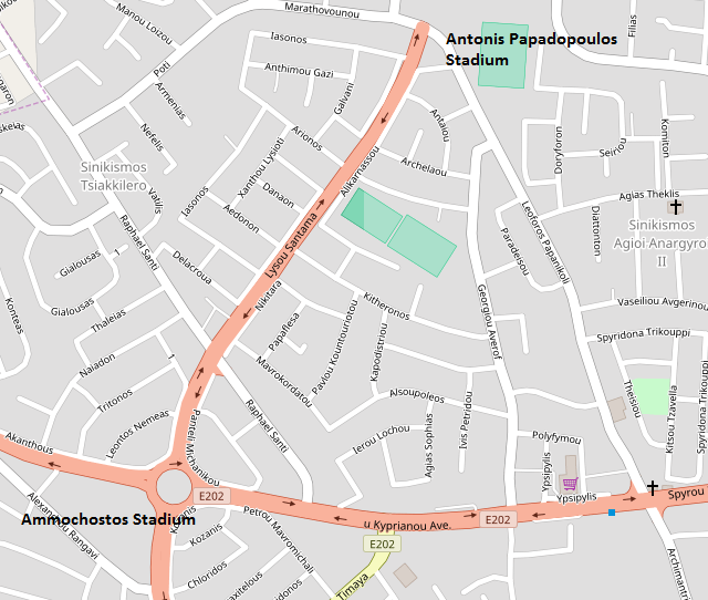 Map of Larnaka with the stadiums of Nea Salamina and Anorthosis (logos)